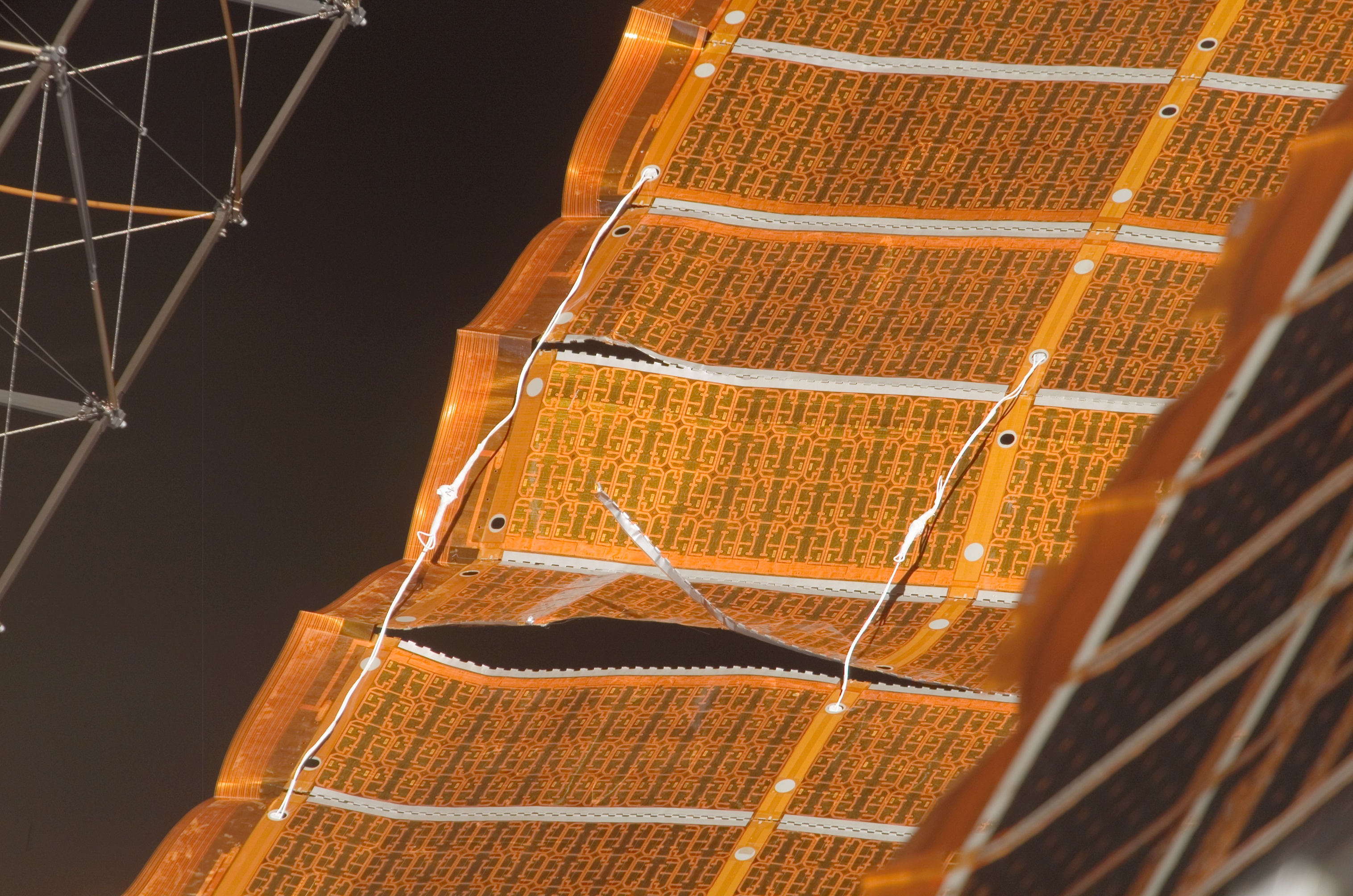 ISS016-E-008875 - View of the repaired solar array photographed during the STS-120 mission's fourth session of extravehicular activity (EVA) while Space Shuttle Discovery is docked with the International Space Station.